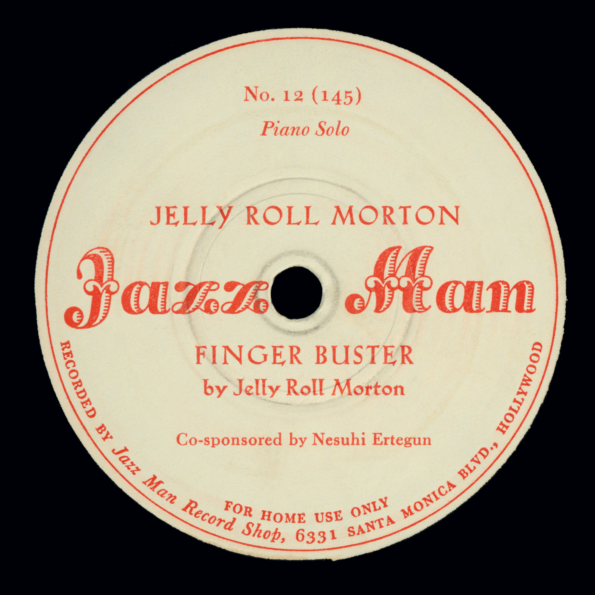 Jazz Man Records 78 label by Jelly Roll Morton, for the piano solo, "Finger Buster", recorded in 1938.